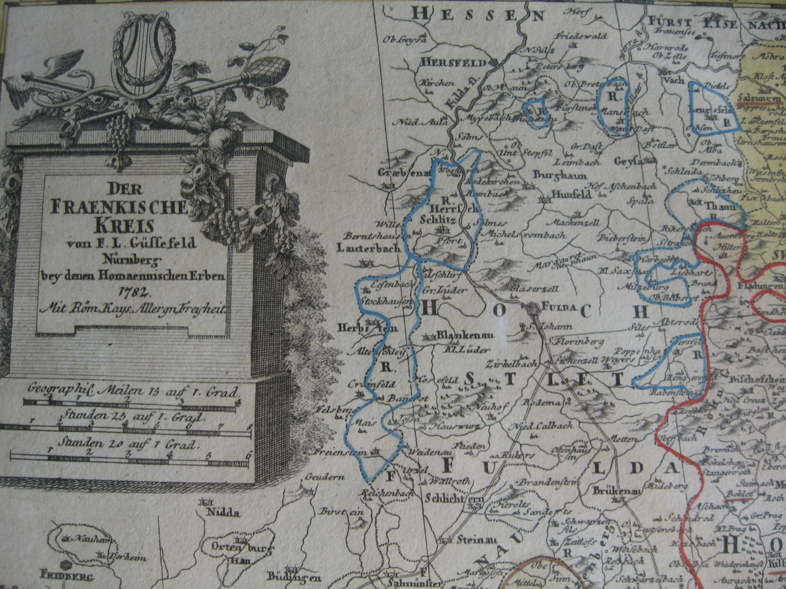 Bordered in blue, the estates of Imperial Knights enclaved within or near the bishopric of Fulda ("R" = Reichsritterschaft). The Imperial Knights and their tiny estates were independent of all external jurisdiction save that of the Emperor. Cropped from a map of the Circle of Franconia published by Homann Heirs in 1782.